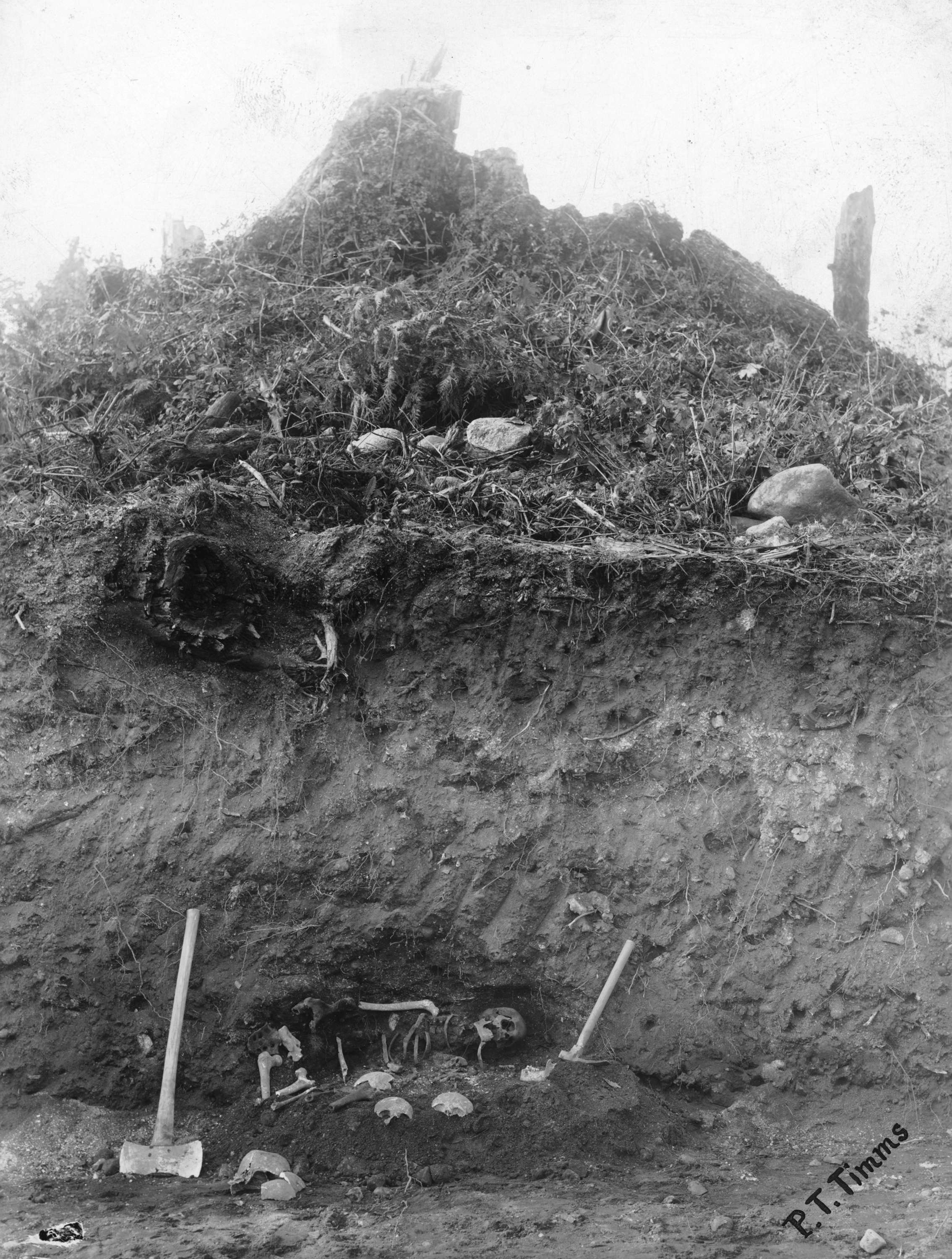 Photograph shows a cross section of the Midden, showing skeletal remains near the bottom.